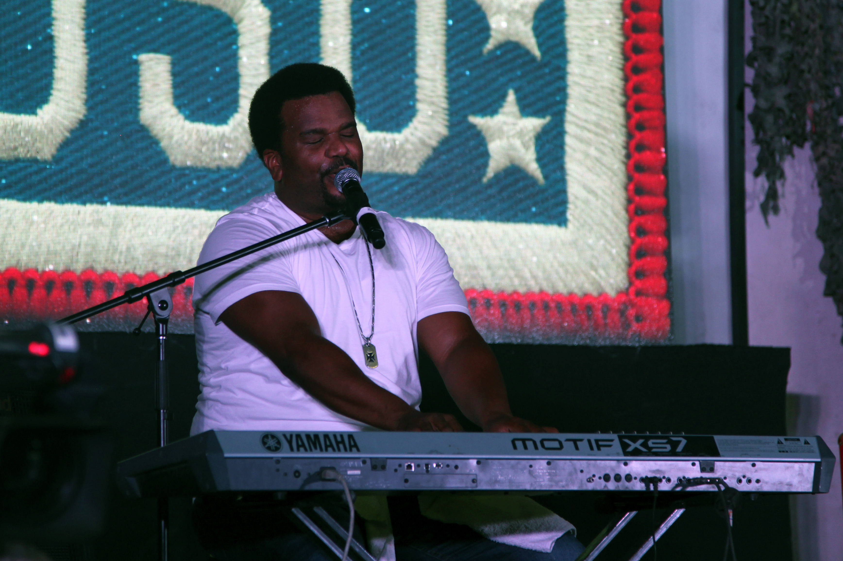 Actor Craig Robinson sings his songs in his stand-up comedy/musical act during The Today USO Comedy Tour Show held at Bagram Air Field, Afghanistan, Oct. 1, 2014. The show was brought together by Al Roker and is meant to raise money for the United Services Organization (USO) so they can better support the service members deployed overseas. (U.S. Army photo by Staff Sgt. Daniel Luksan/ Released)